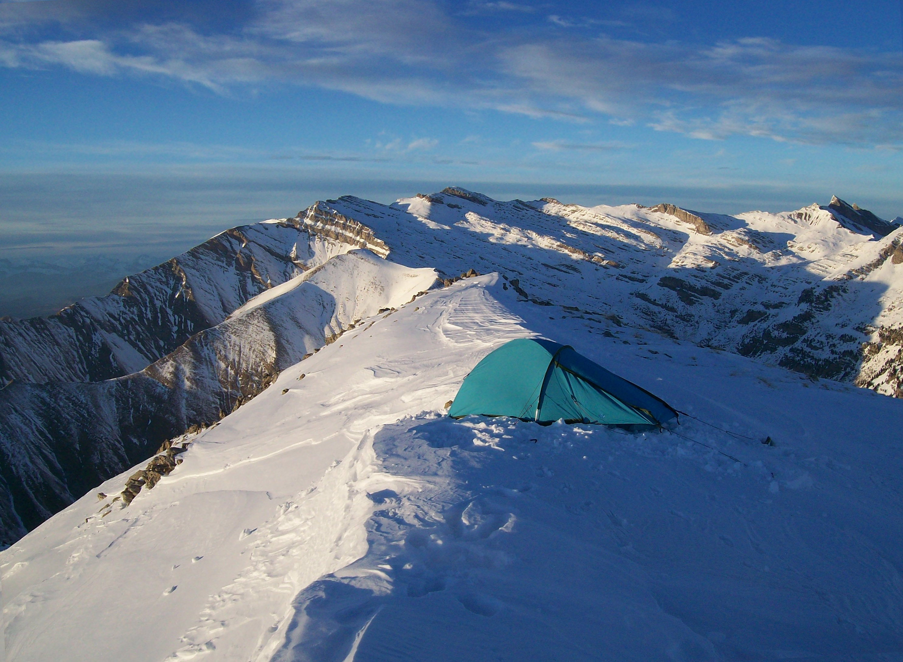 Tête de l'Estrop